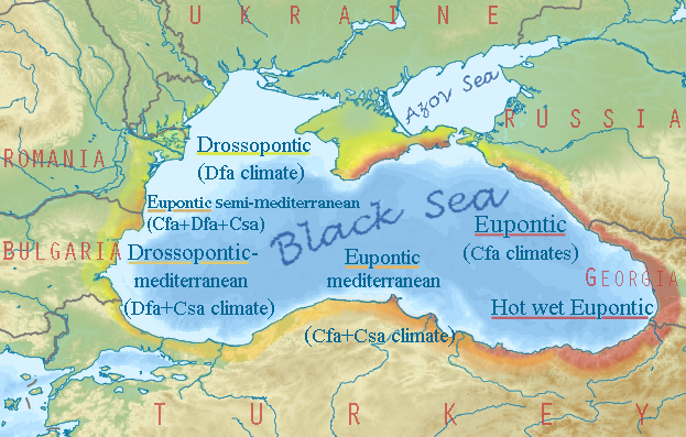 Pontic climates, according with Grigore Antipa, Danube Delta & Black Sea, Romanian Academy, Bucharest 1939 ; Joël Charre, « La forêt de la chaîne pontique orientale », Revue de géographie alpine no 62, Grenoble, 1974 ; Özhan Öztürk, Karadeniz : ansiklopedik sözlük (Encyclopedic dictionary of the Black Sea), Heyamola, Istanbul 2005 ; Emil Vespremeanu, Geografia Mării Negre (Geography of the Black Sea), éd. Universitară, Bucharest 2005 ; Petre Gâștescu & Romulus Știucă, Delta Dunării (Danube Delta), CD-Press, Bucharest 2008. Background draw since NASA Shuttle Radar Topography Mission (SRTM30) and Natural Earth data